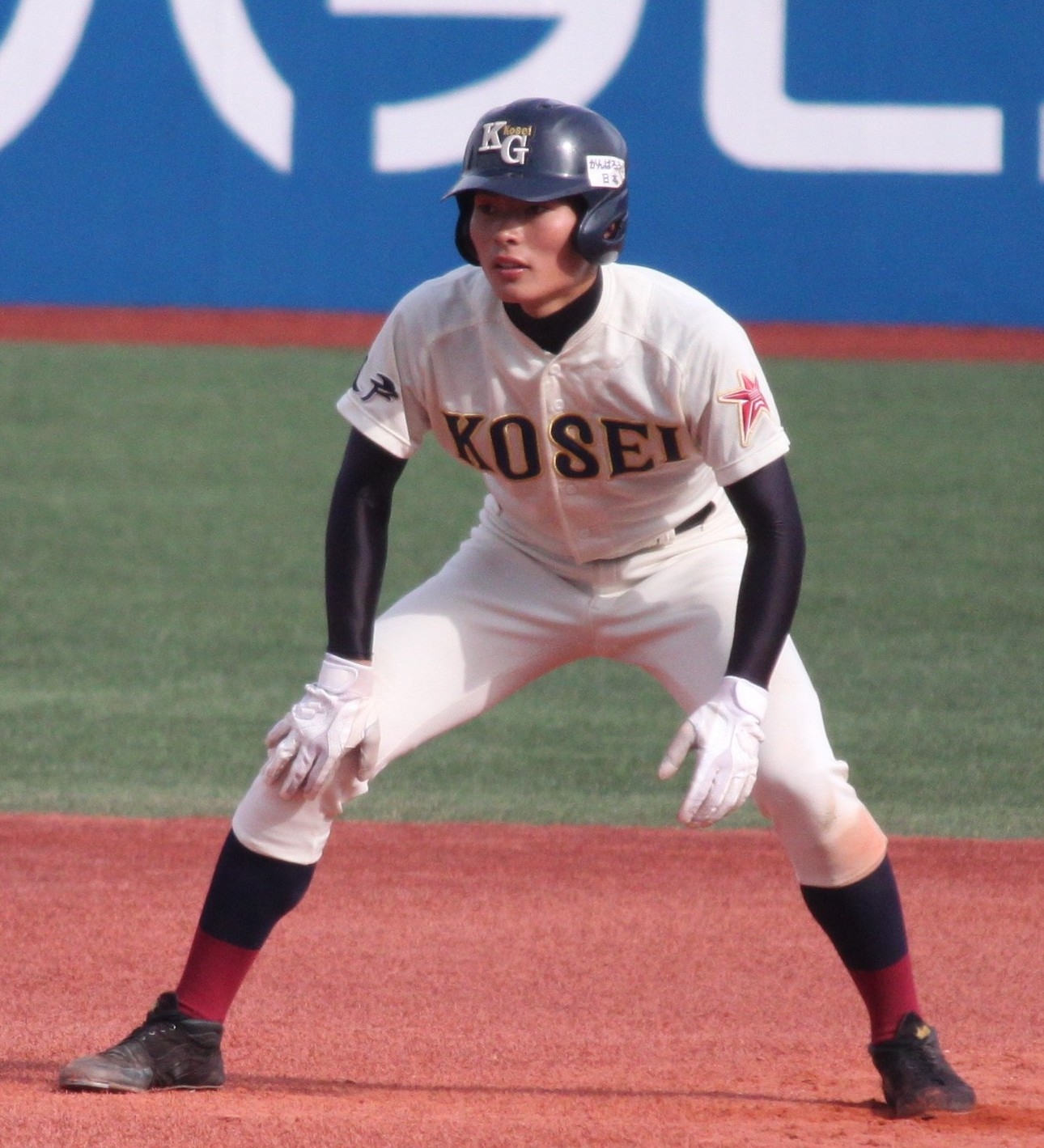 Fumiya Hojo, infielder of the Kosei Gakuin High School, at Meiji Jingu Stadium.